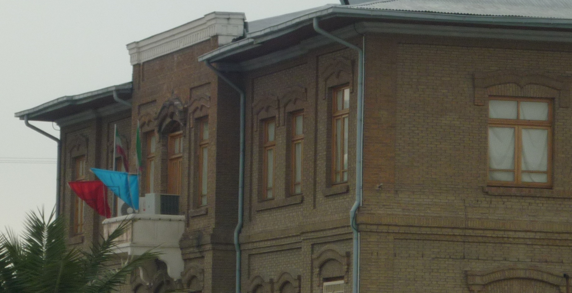 HISTORY MUSEUM AMOL